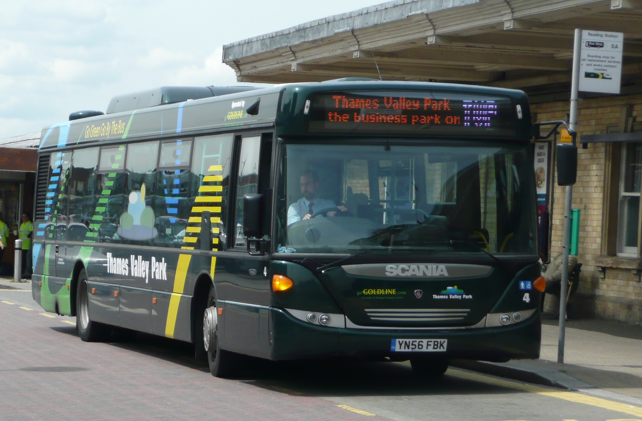 A Reading Transport Goldline bus at Reading railway station on the shuttle service to Thames Valley Park. The bus is a Scania CN230UB, registration mark YN56 FBK, fleet number 4.